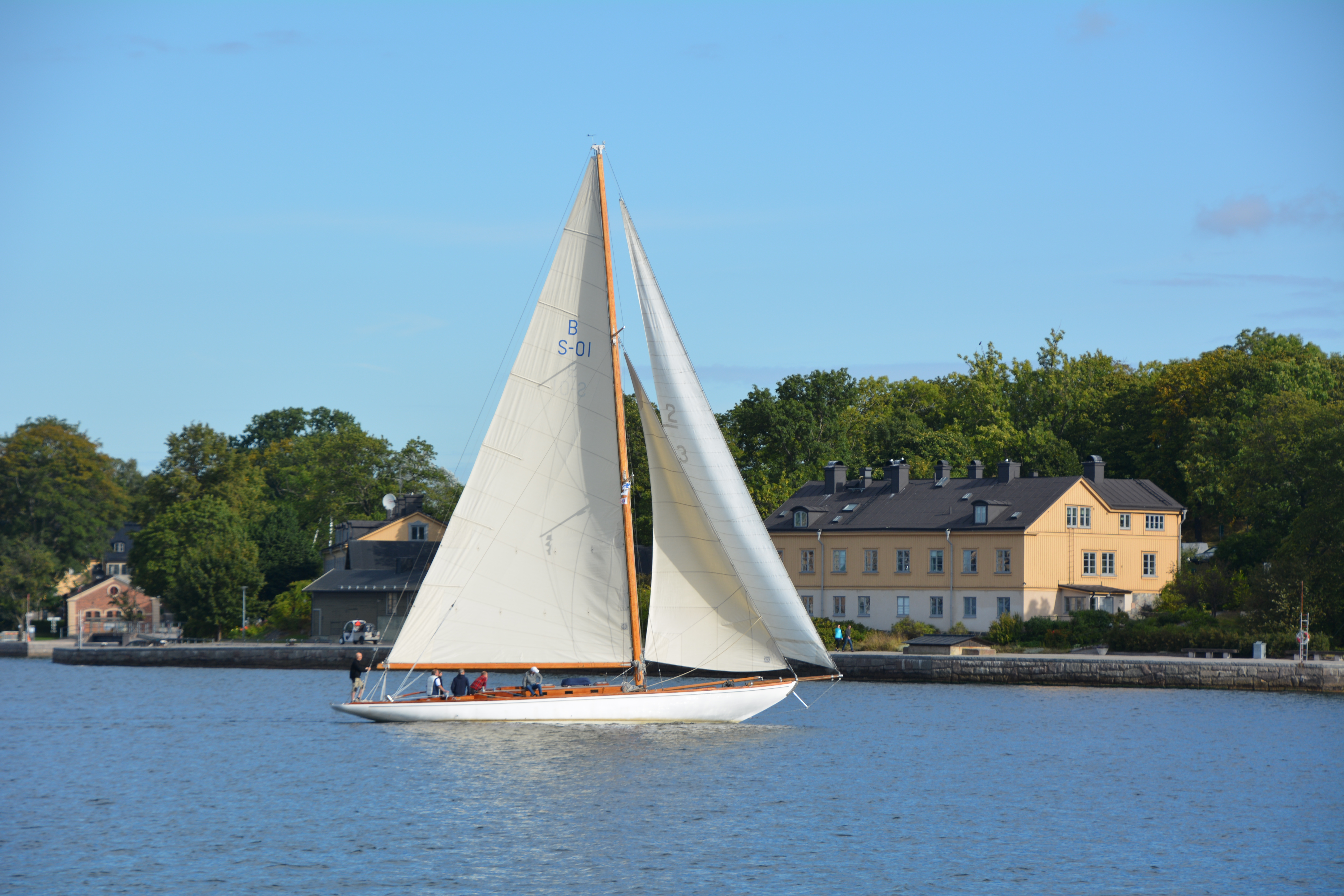 Beatrice Aurore framför Hantverkarbostället på Kastellholmen i Stockholm. Beatrice Aurore är en skärgårdskryssare SK 150, byggd som EBE 1920 av August Plym på Neglingevarvet i Saltsjöbaden, har tidigare också haft namnet Ebella